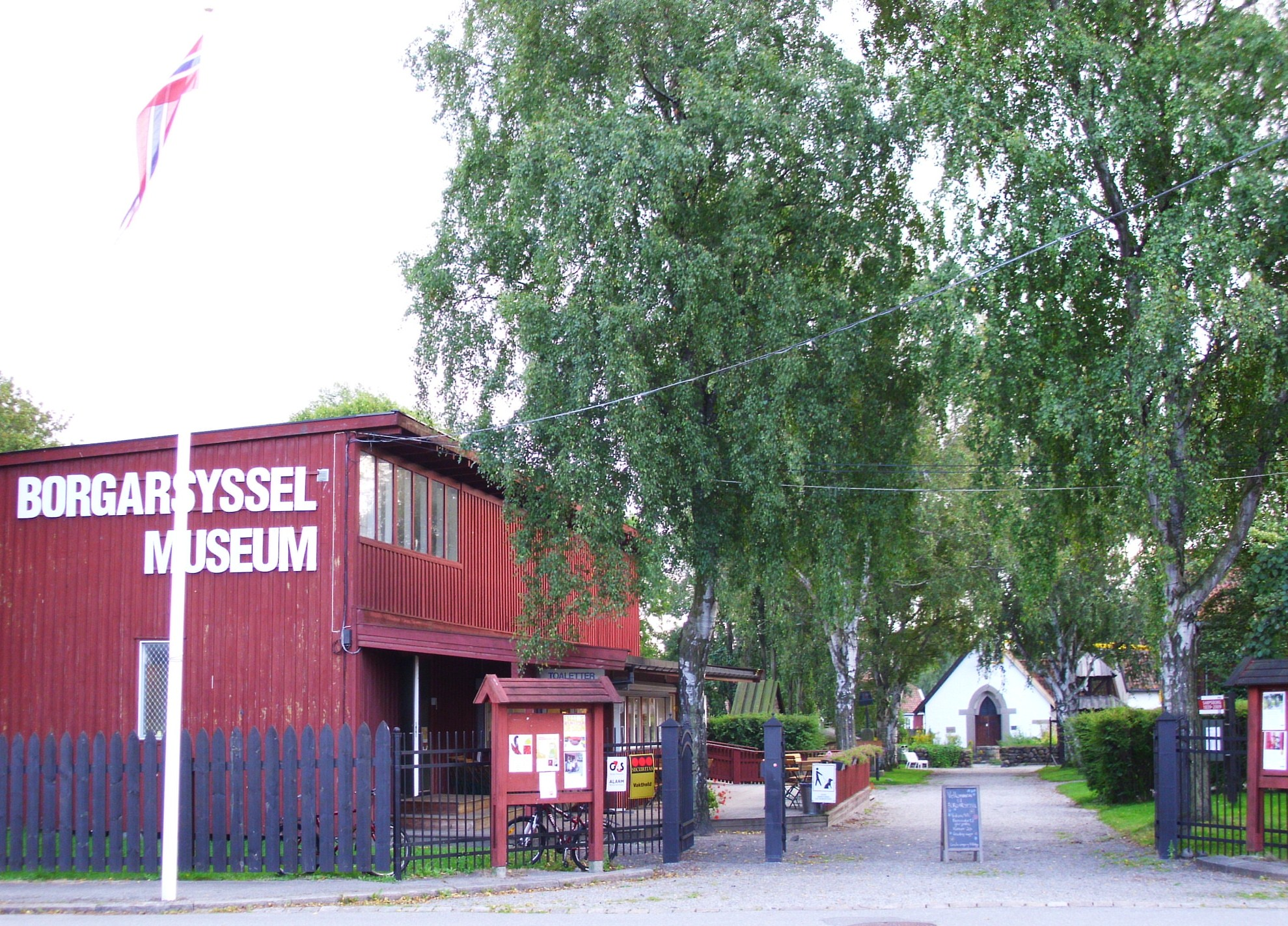 Building of the museum with a view at the park